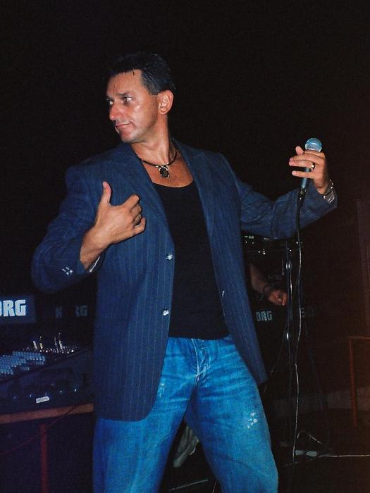 Photo of Šako Polumenta